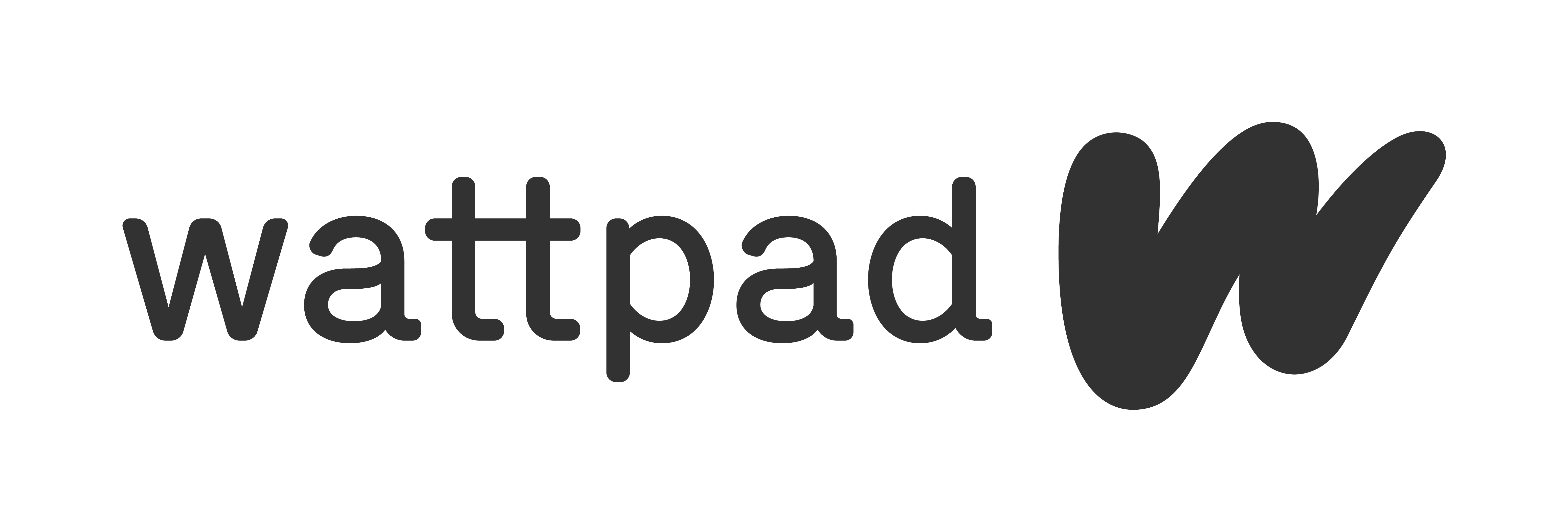 Wattpad brand, logo